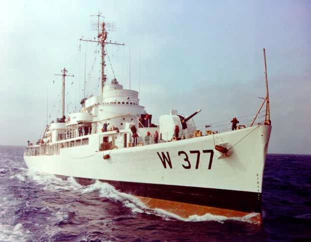 United States Coast Guard cutter USCGC Rockaway as WAVP-377, WAGO-377, or WHEC-377, sometime prior to the Coast Guards 1967 adoption of the "racing stripe" marking on ships.